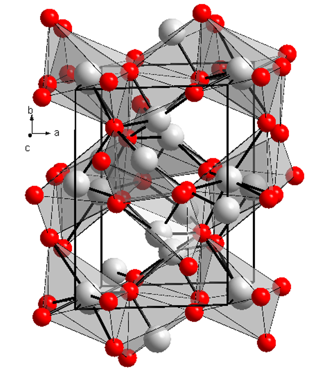 crystal structure of Bismuth(III) oxide